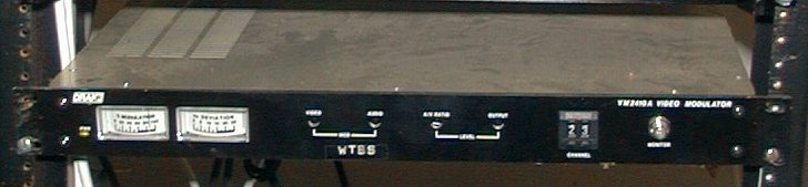 Cable Tv headend modulator